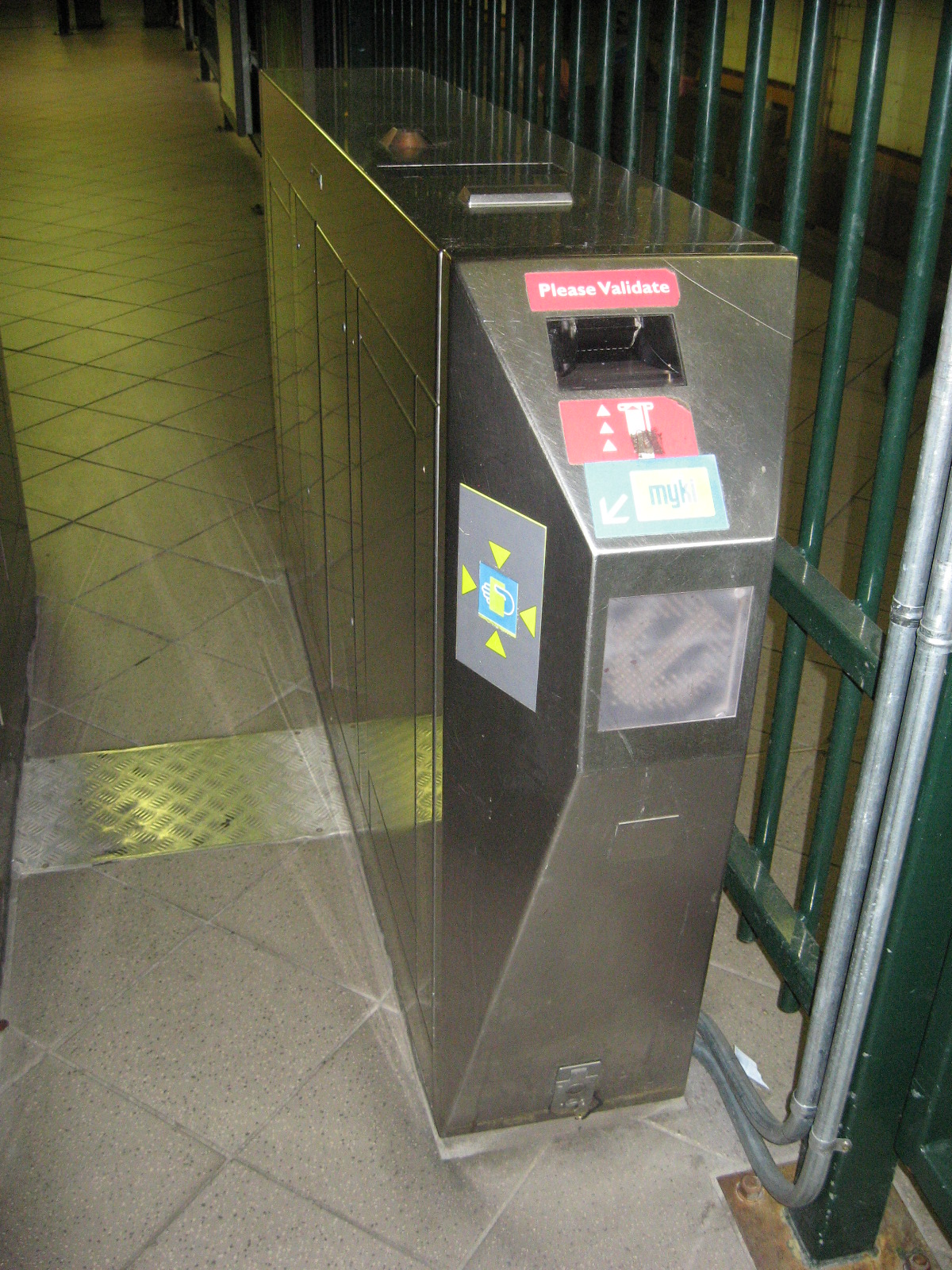 Metcard machine retrofitted Myki equipment at Flinders st.